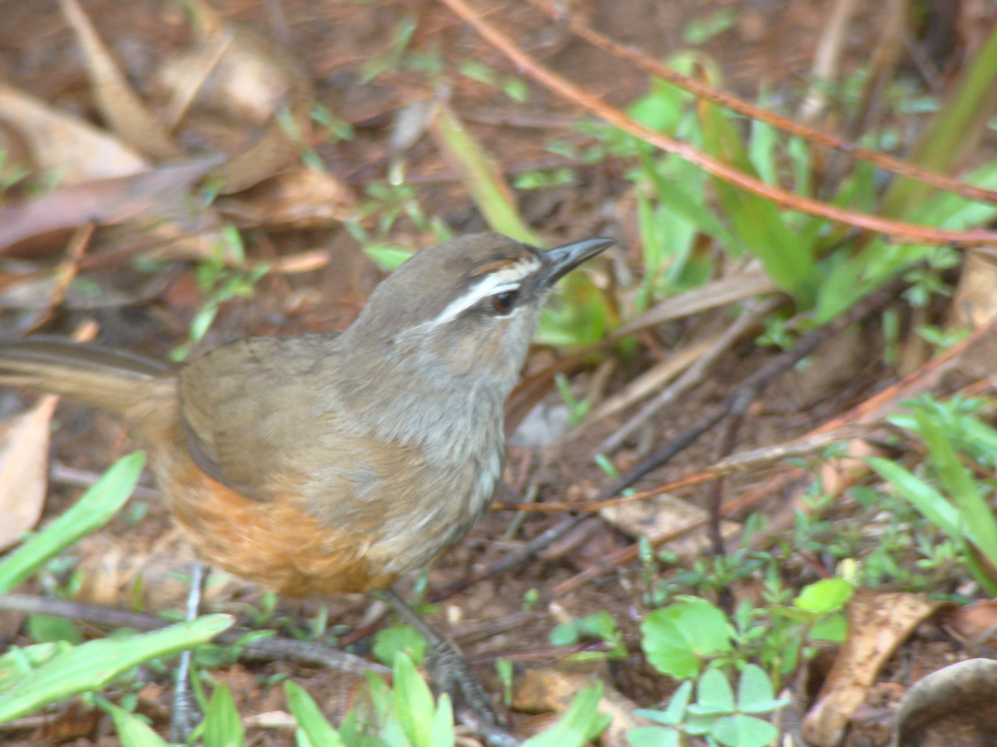 I was trying to shoot a Barbet, and so initially I failed to notice this Laughingthrush just about 2 feet near me. Luckily, this one did give me ample chances to shoot at least 10 pictures before it disappeared into a thicket.